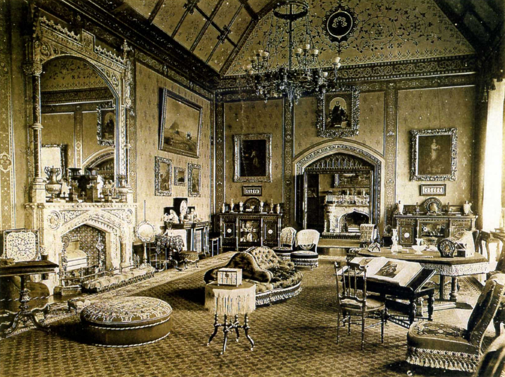 The Drawing Room at Tyntesfield, North Somerset.